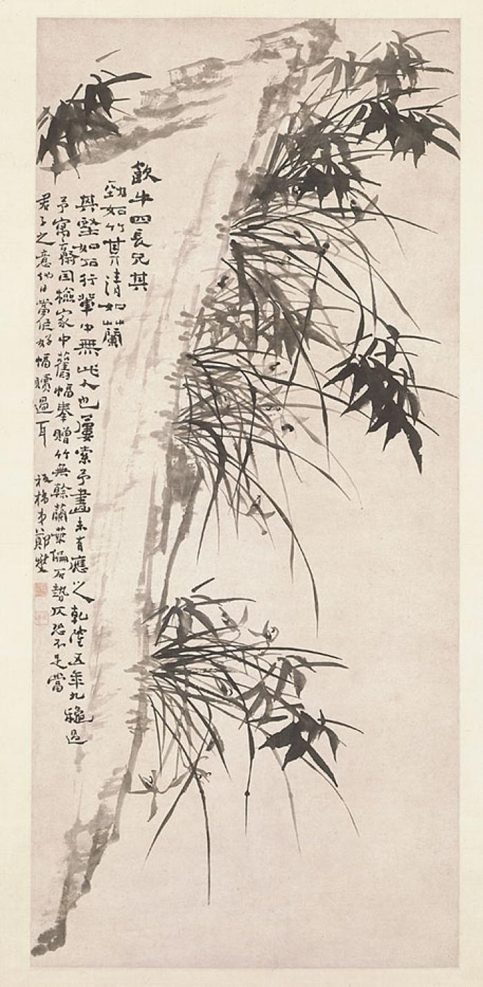 Orchids, Bamboo and Rock, before 1740, by Zheng Xie (1693—1765). Hanging scroll, ink on paper. The Palace Museum, Beijing.